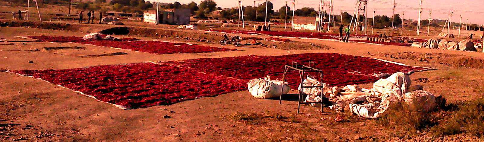 The chilly is major agricultural product of khargone, the picture shows red chillies kept for selling in market